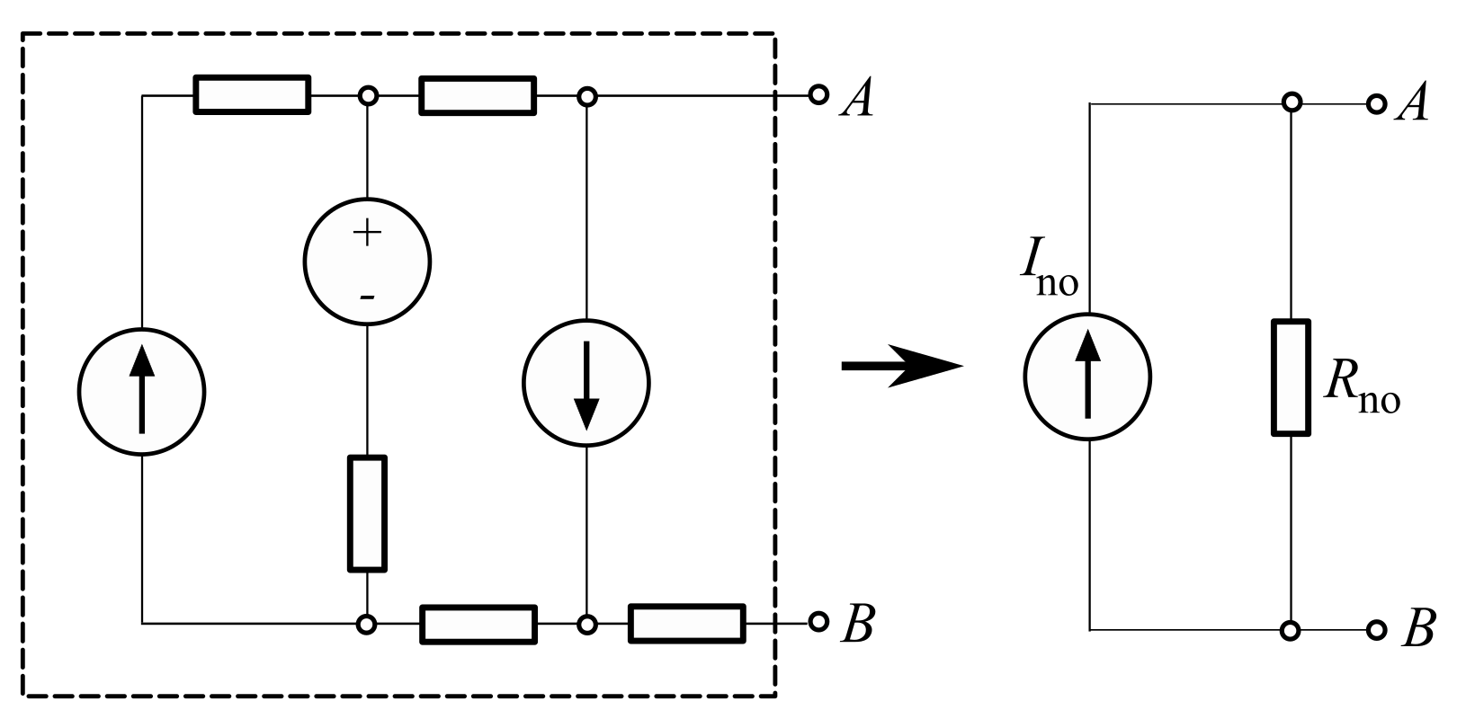 Norton equivalent circuits